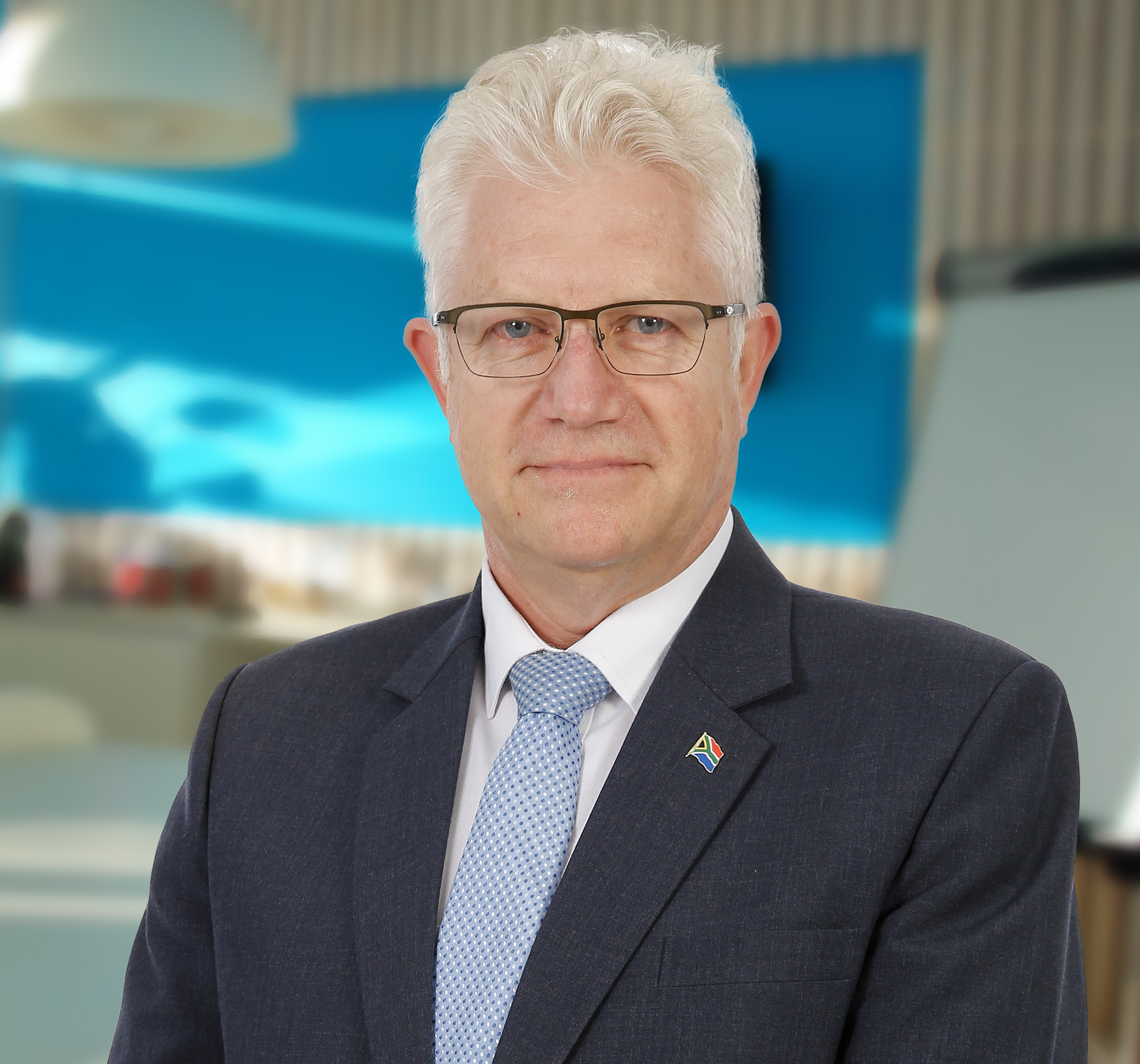 Alan Winde, South African politician and businessman